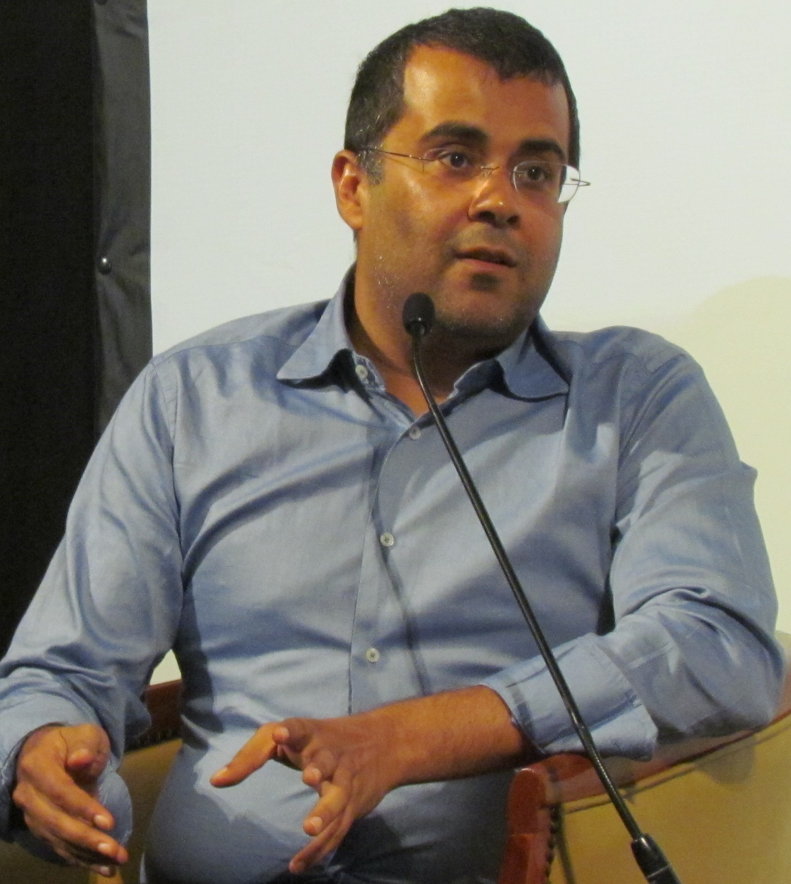 Indian writer Chetan Bhagat attending "Meet the auther" programm conducted by Sharjah International Book Fair 2011 on 21-November-2011 অসমীয়া: সংযুক্ত আৰব আমিৰাতৰ "চাৰজাহ আন্তৰাষ্ট্ৰীয় গ্ৰন্থমেলা ২০১১"-ৰ "মিট দা অথৰ" অনুষ্ঠানত ভাৰতীয় লেখক চেতন ভগত, ২১ নবেম্বৰ ২০১১ তাৰিখে